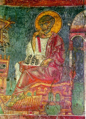 Apostle Luke in Saint Mary of Mavrovo in Kastoria, 11th Century